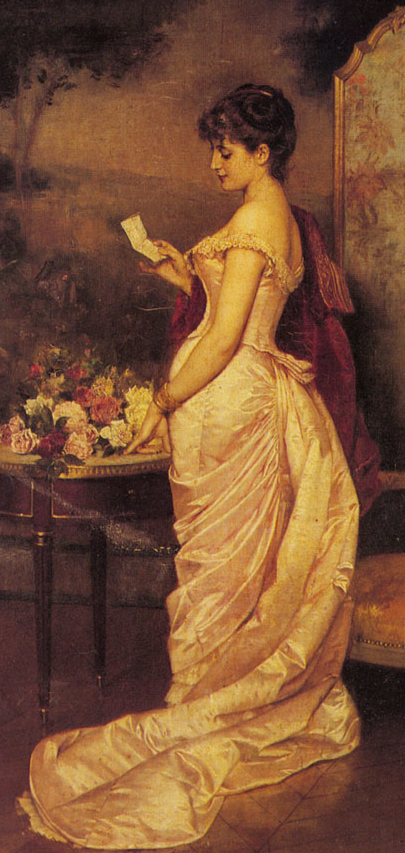 Detail of The Love Letter